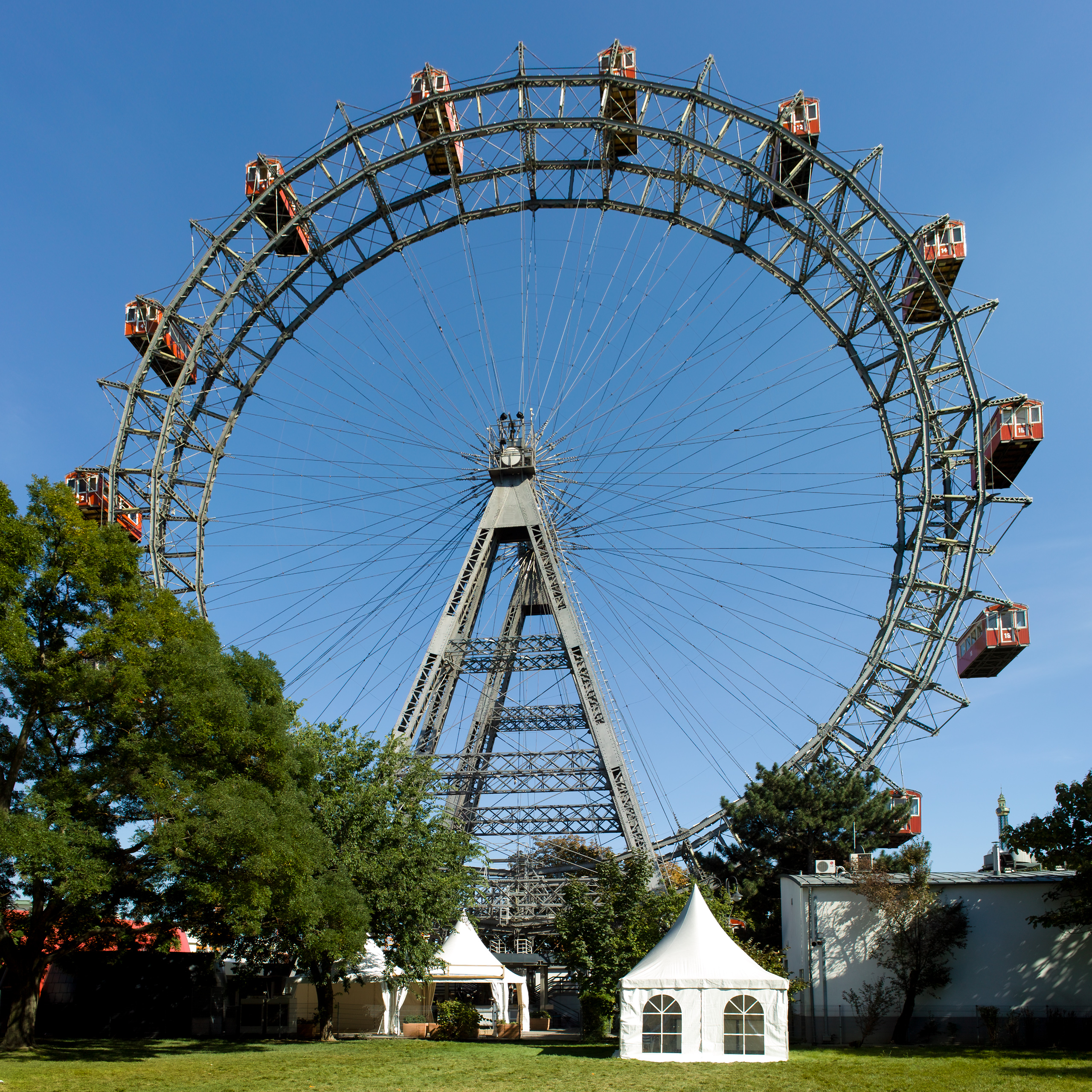 The Giant Ferris Wheel in Vienna, on September 20th, 2010.